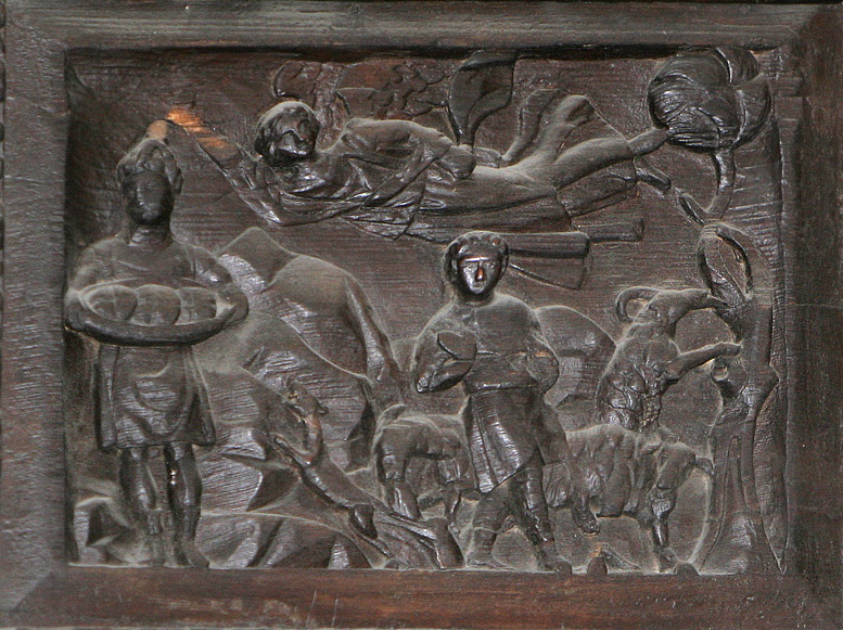 Panel from door of Santa Sabina showing a scene from an apocryphal Old Testament book of Daniel, "Bel and the Dragon". An angel grabs Habakkuk by the hair to take him through the air to Babylon, where he will be instructed to offer Daniel - thrown into the lions den for a second time - the dinner he has just prepared. Daniel was among the most popular early Christians subjects of art. Early Christian writers indicated this was because Christians saw Daniel's prophecies and survival in the lions den as predicting a messiah. It is curious that the artisan thought the abduction event worth capturing, considering that the rest of the story of Daniel is filled with stories that would seem to make more exciting pictures. Its presence on the door probably indicates that it was paired with a scene with Daniel in the lions' den.